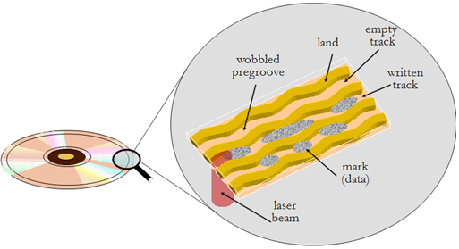 pregroove wobble on writable discs